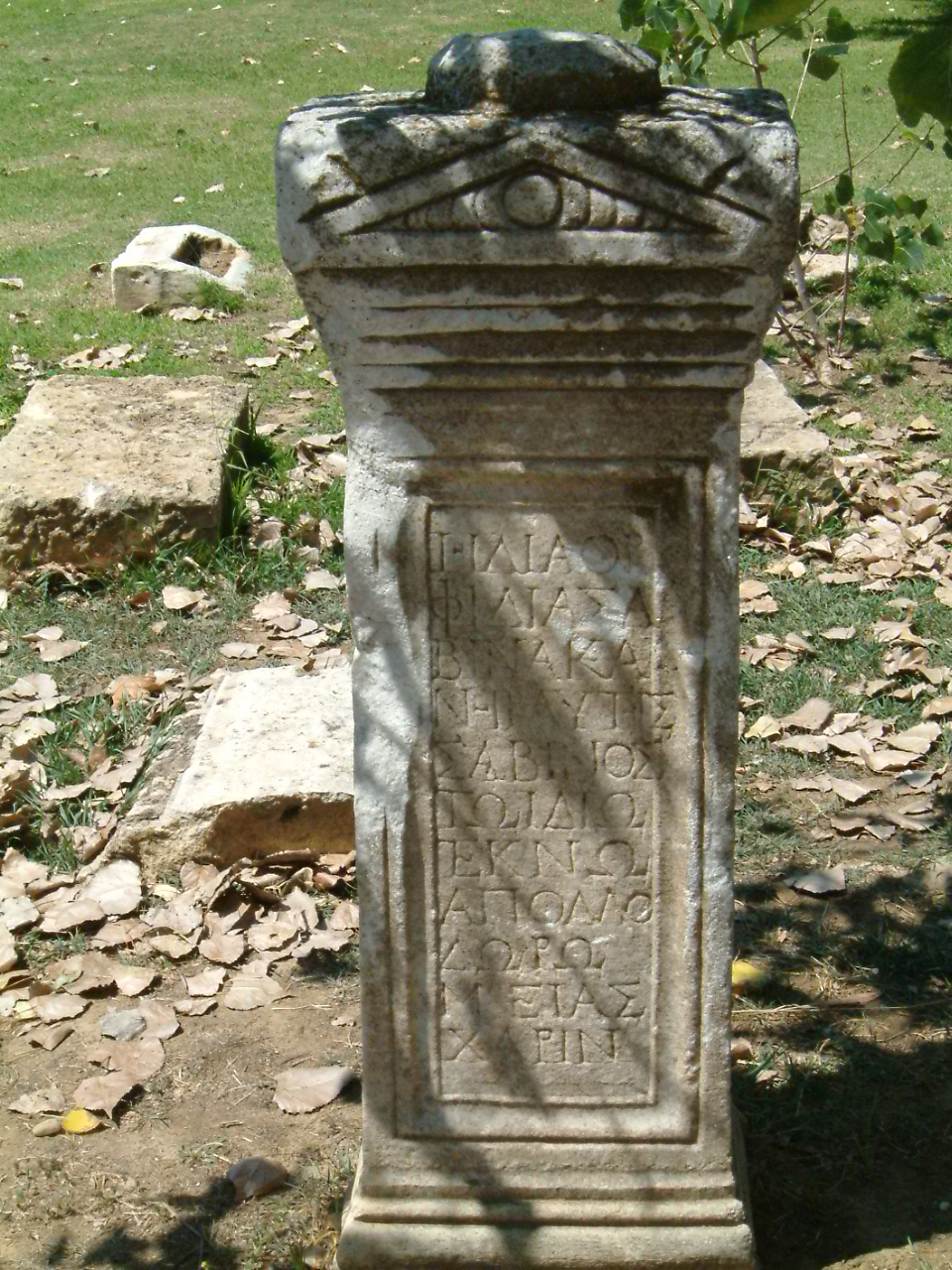 Tombstone in ancient city of Olynthos, Chalkidiki, Greece (northern hill of ancient town) with greek inscription.